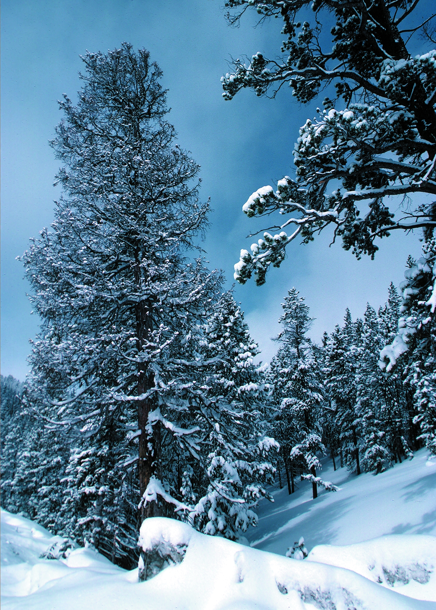 Snow builds up in Colorado's high forests in the Rocky Mountains. Snow melt is essential to western agriculture. Converted to maximum quality JPEG from the original TIFF image (32 bit CMYK color) --Ævar Arnfjörð Bjarmason 00:28, 14 Dec 2004 (UTC)